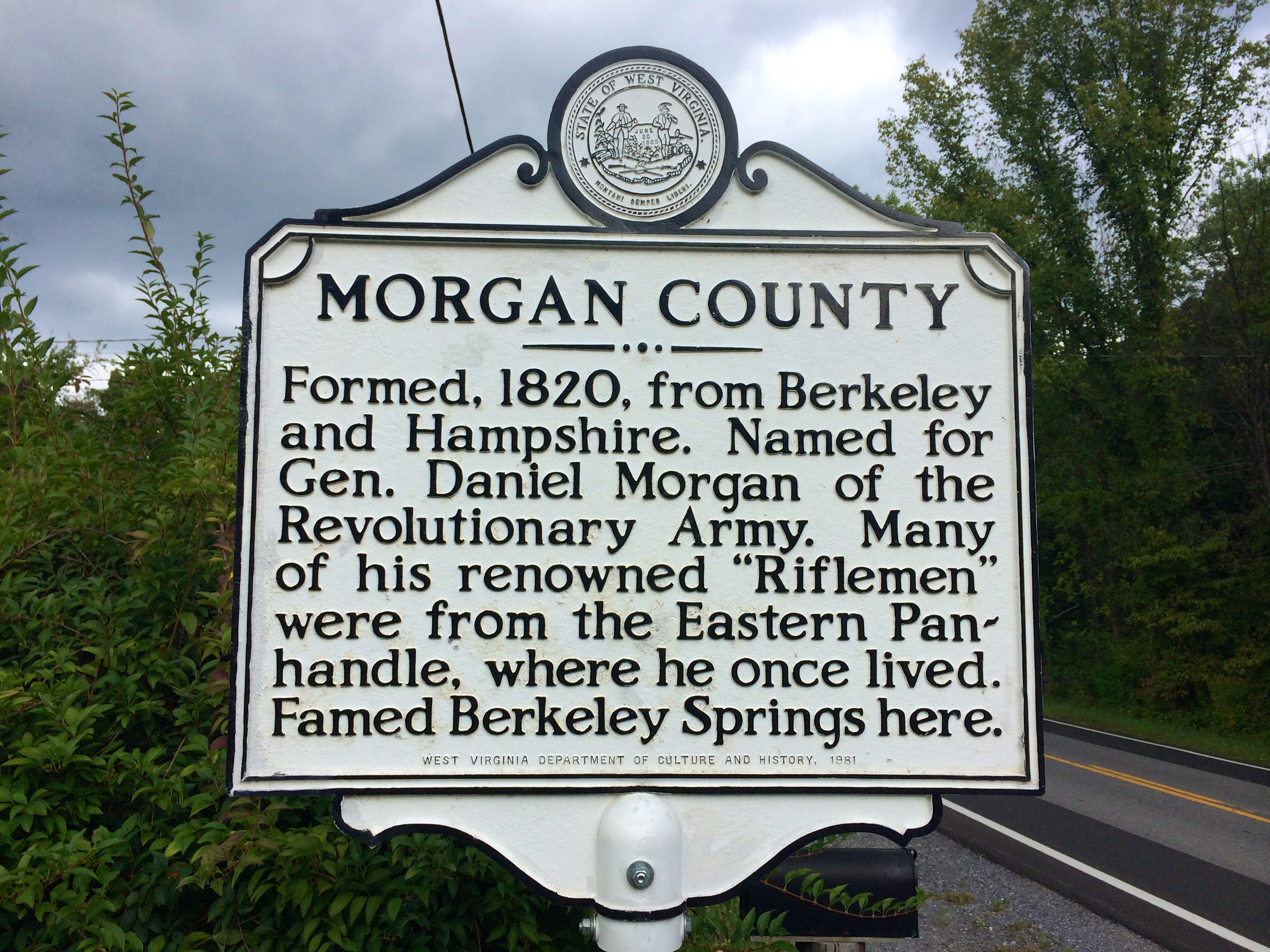 A West Virginia state highway historical marker illustrating a brief history of Morgan County, West Virginia. The marker reads: "Formed, 1820, from Berkeley and Hampshire. Named for Gen. Daniel Morgan of the Revolutionary Army. Many of his renowned "Riflemen" were from the Eastern Panhandle, where he once lived. Famed Berkeley Springs here." The highway historical marker is located along Paw Paw Road (West Virginia Route 9) in Woodrow, West Virginia. Photographed by Justin A. Wilcox of Washington, D.C.